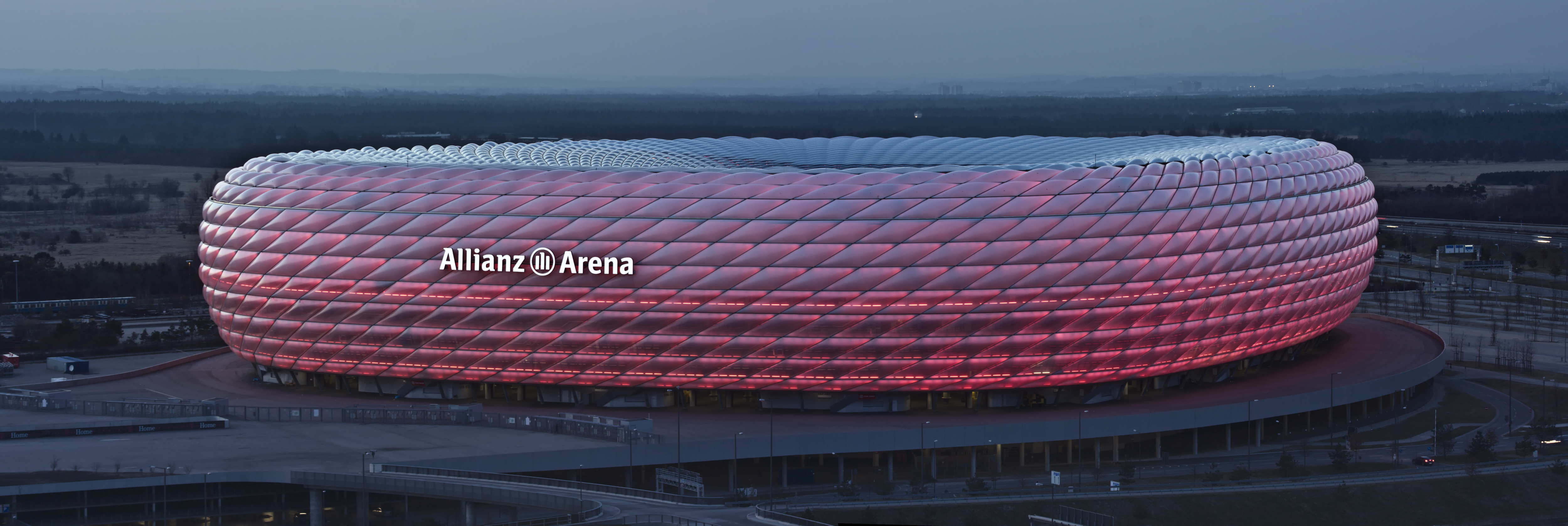 The Allianz Arena is a football stadium in the north of Munich, Germany. The two professional Munich football clubs FC Bayern München and TSV 1860 München have played their home games at Allianz Arena since the start of the 2005/06 season. Because of its shape, the stadium is nicknamed the « Schlauchboot » (inflatable boat).